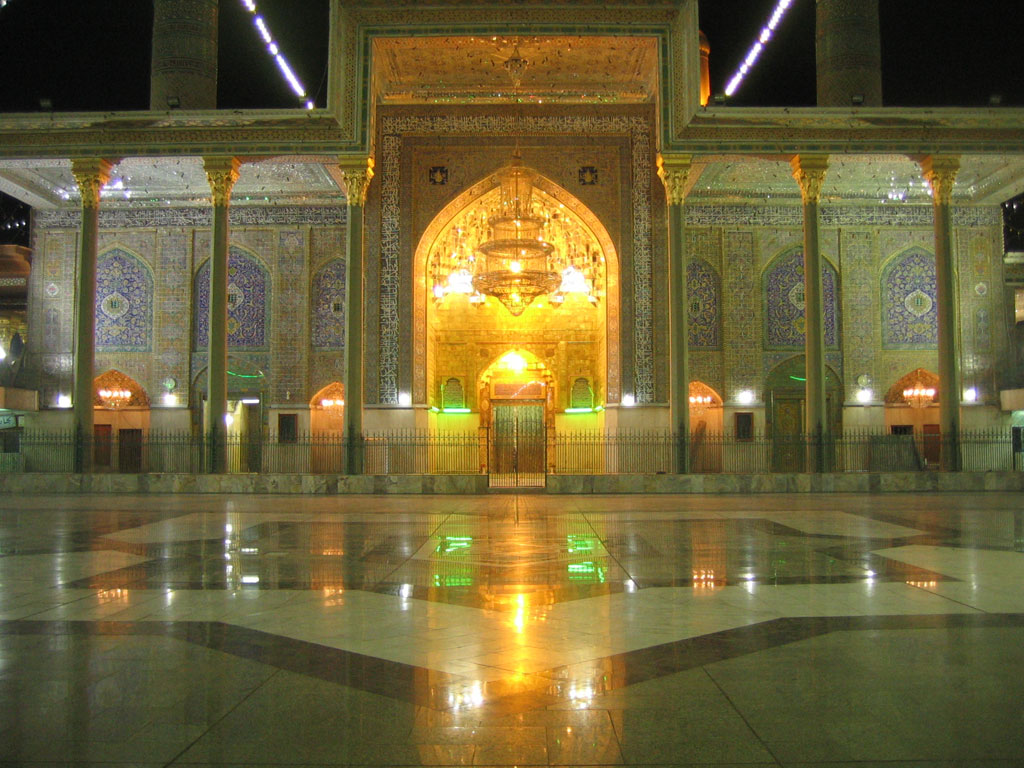 Al-Khadhumain Mosque in Baghdad, Iraq